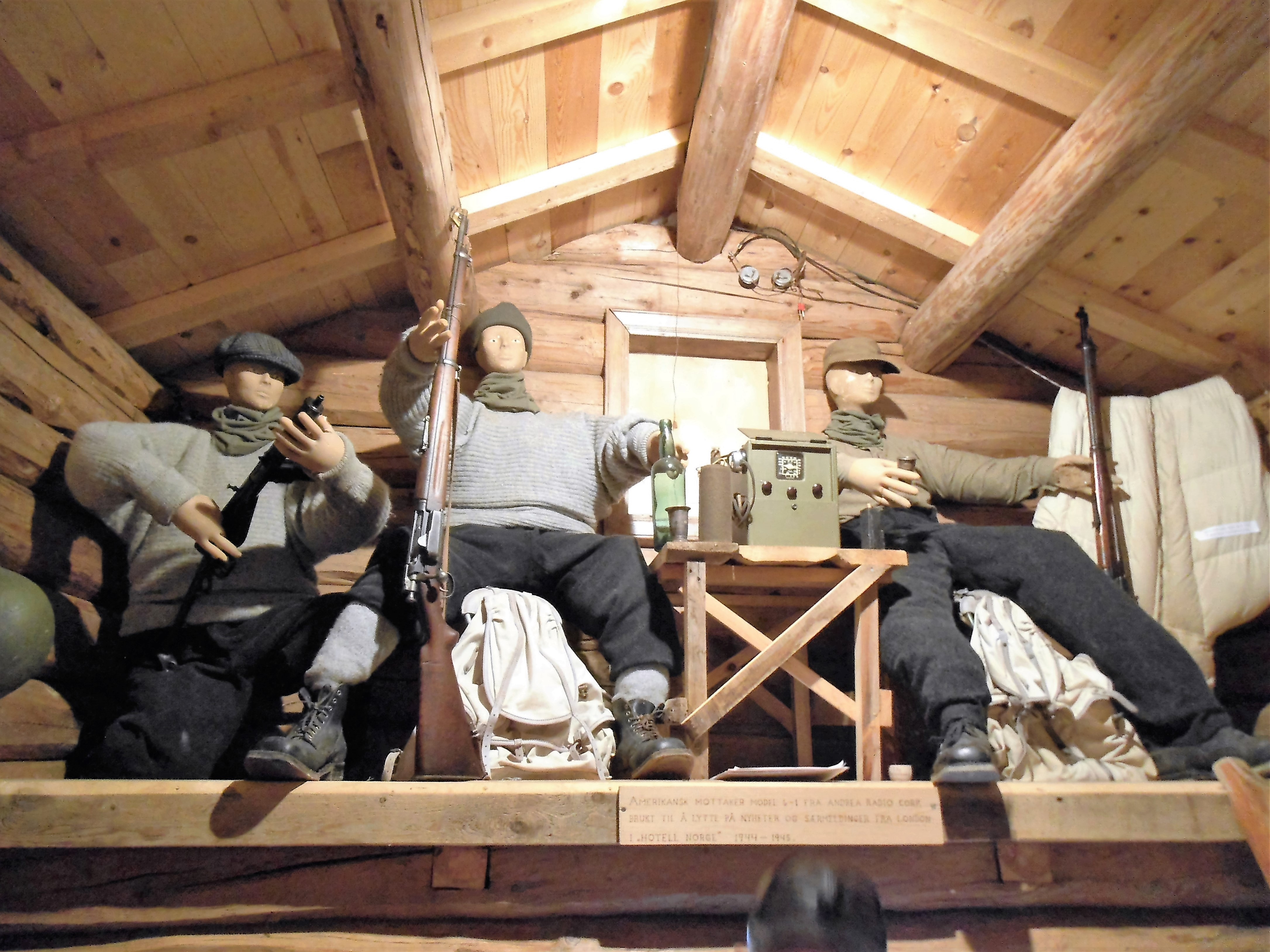 Sabotørmuseet is a local war-museum established in 2003 in Gåsbakken, Melhus. The museum is dedicated to those who performed sabotage against The Thamshavn Line under the German occupation of Norway, 1940-45)